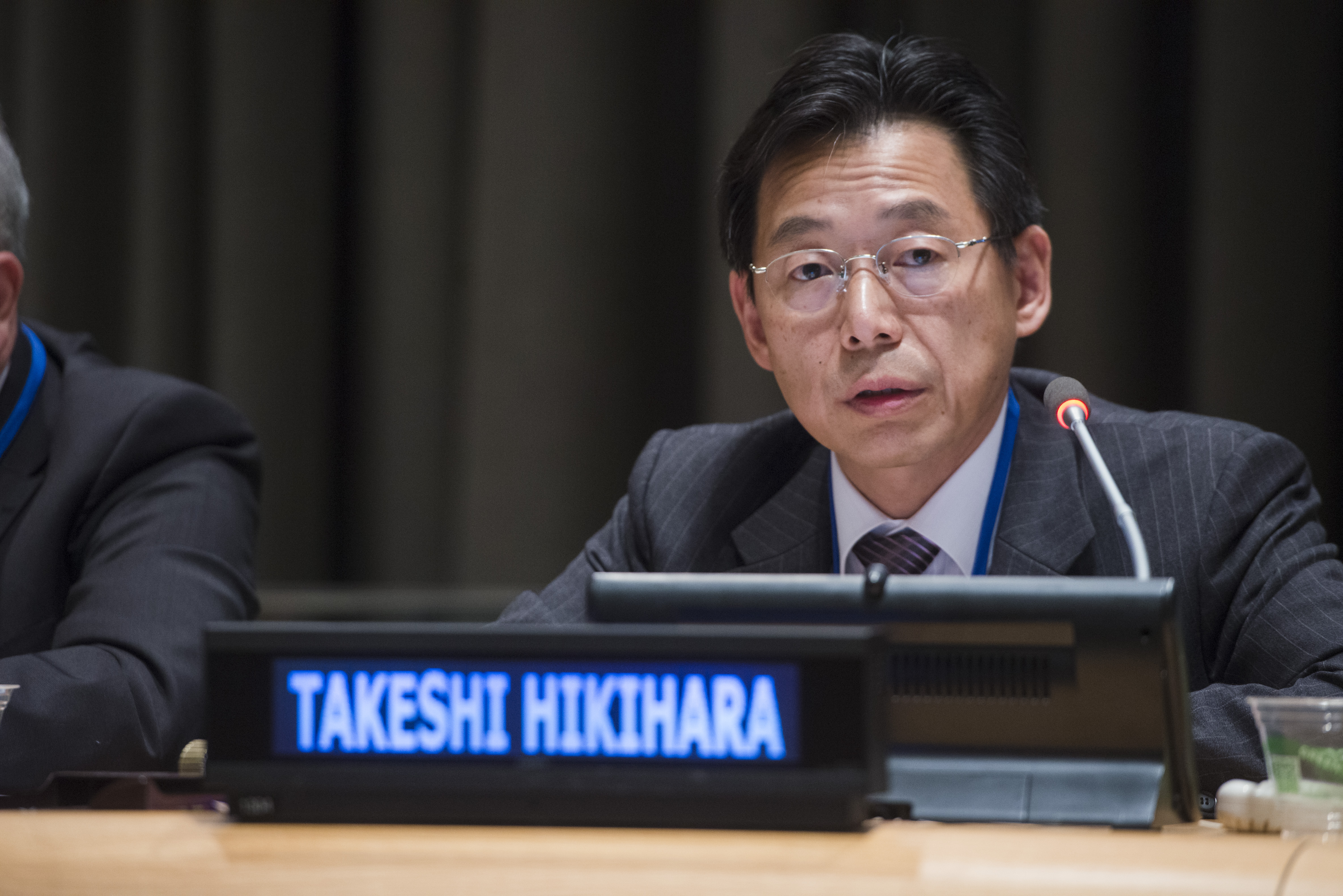 Takeshi Hikihara, Director-General, Disarmament, Non- Proliferation and Science Department, Japan